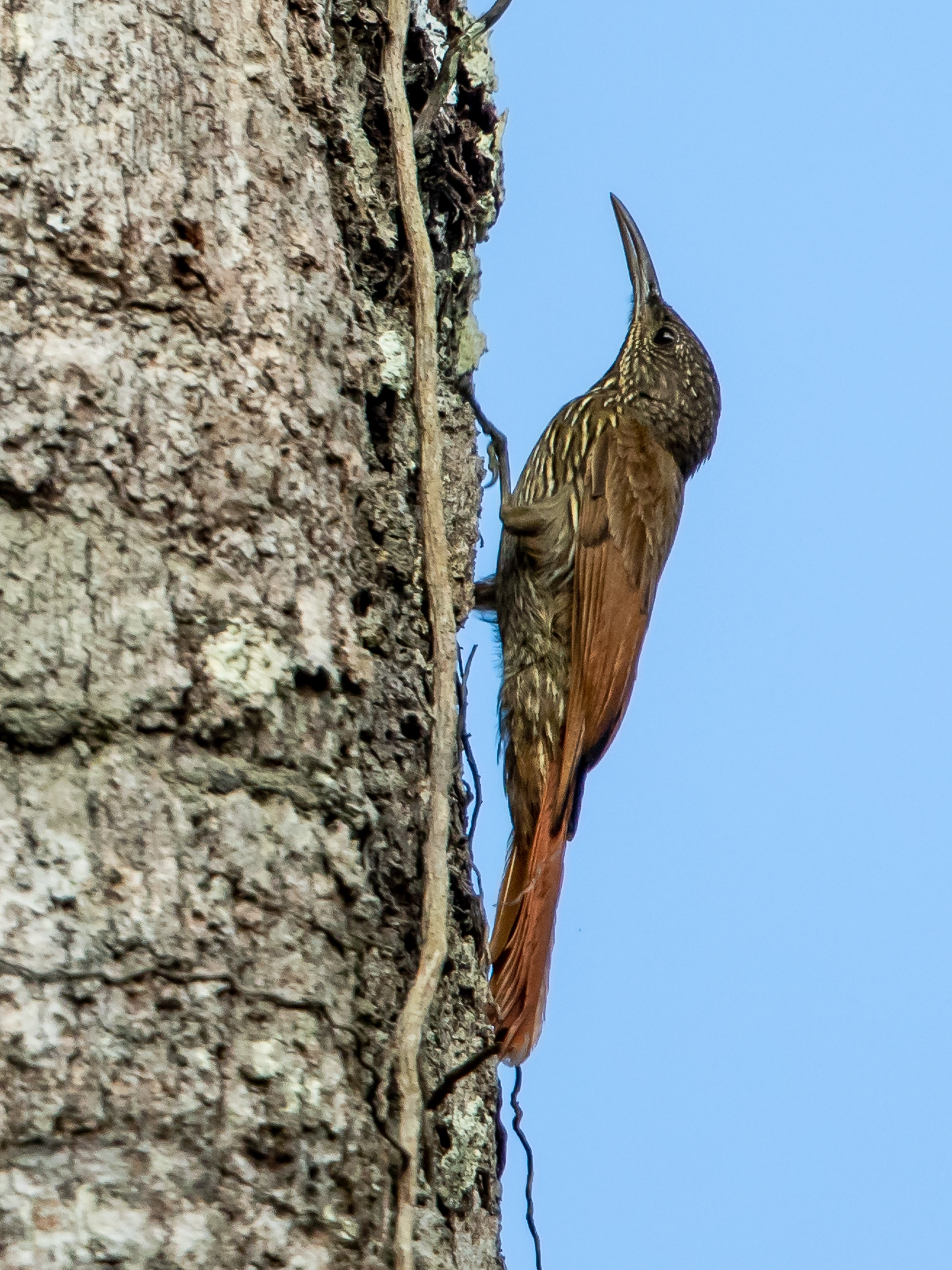 Guianan woodcreeper, Manaus, Amazonas, Brazil